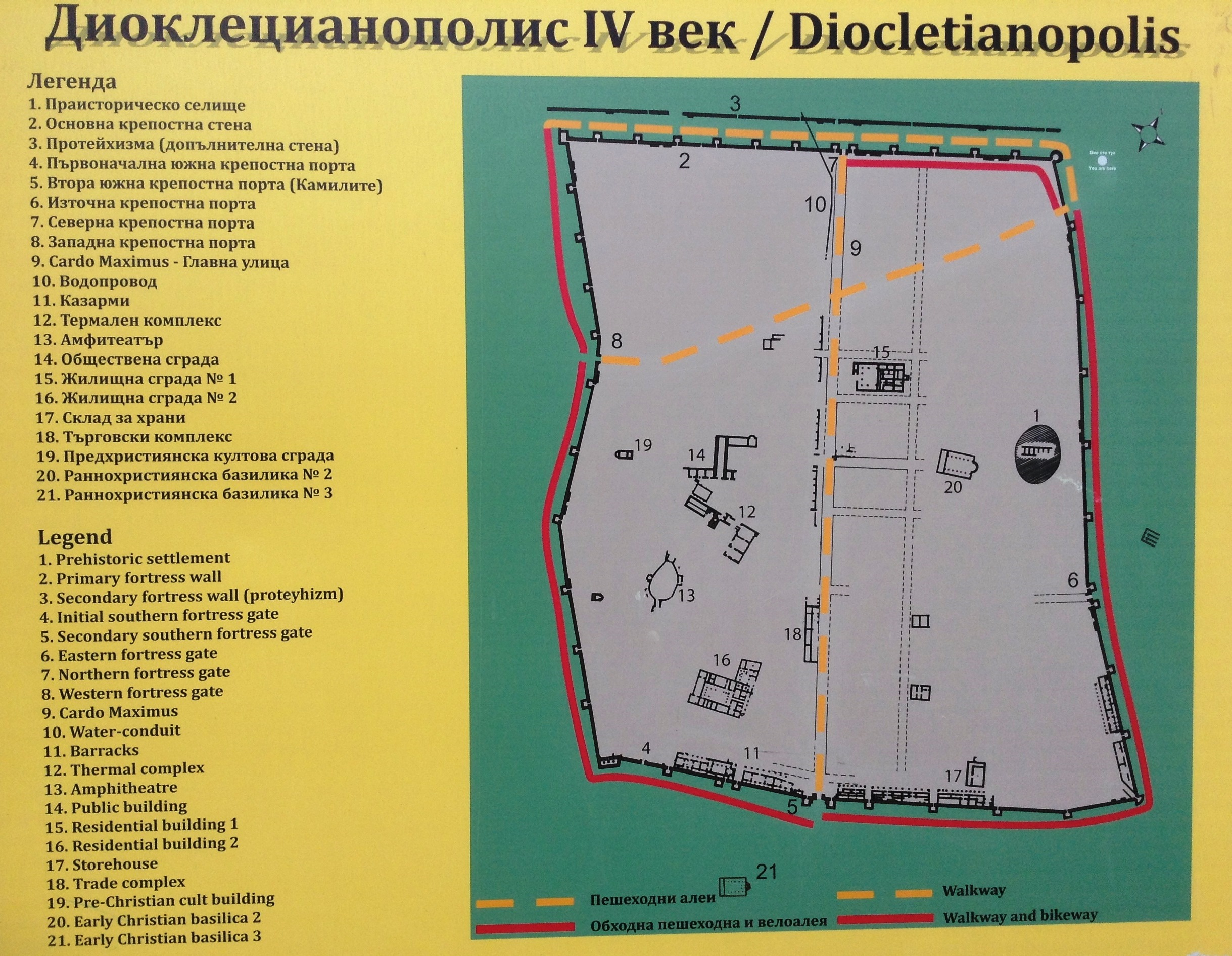 Diocletianopolis city plan, modern day Hissarya, Bulgaria